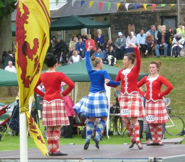 A wee birl first